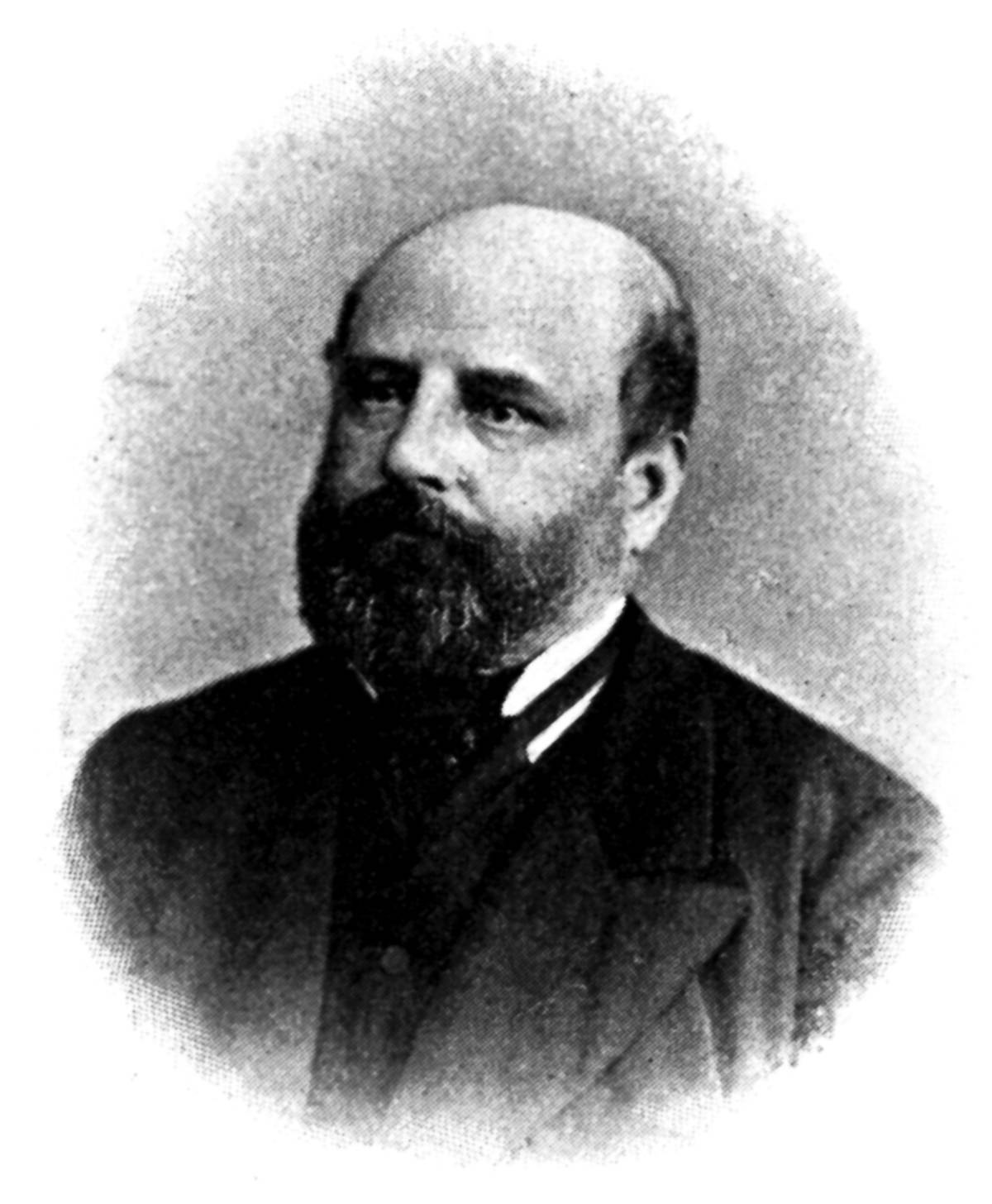 Jaromír Mundy